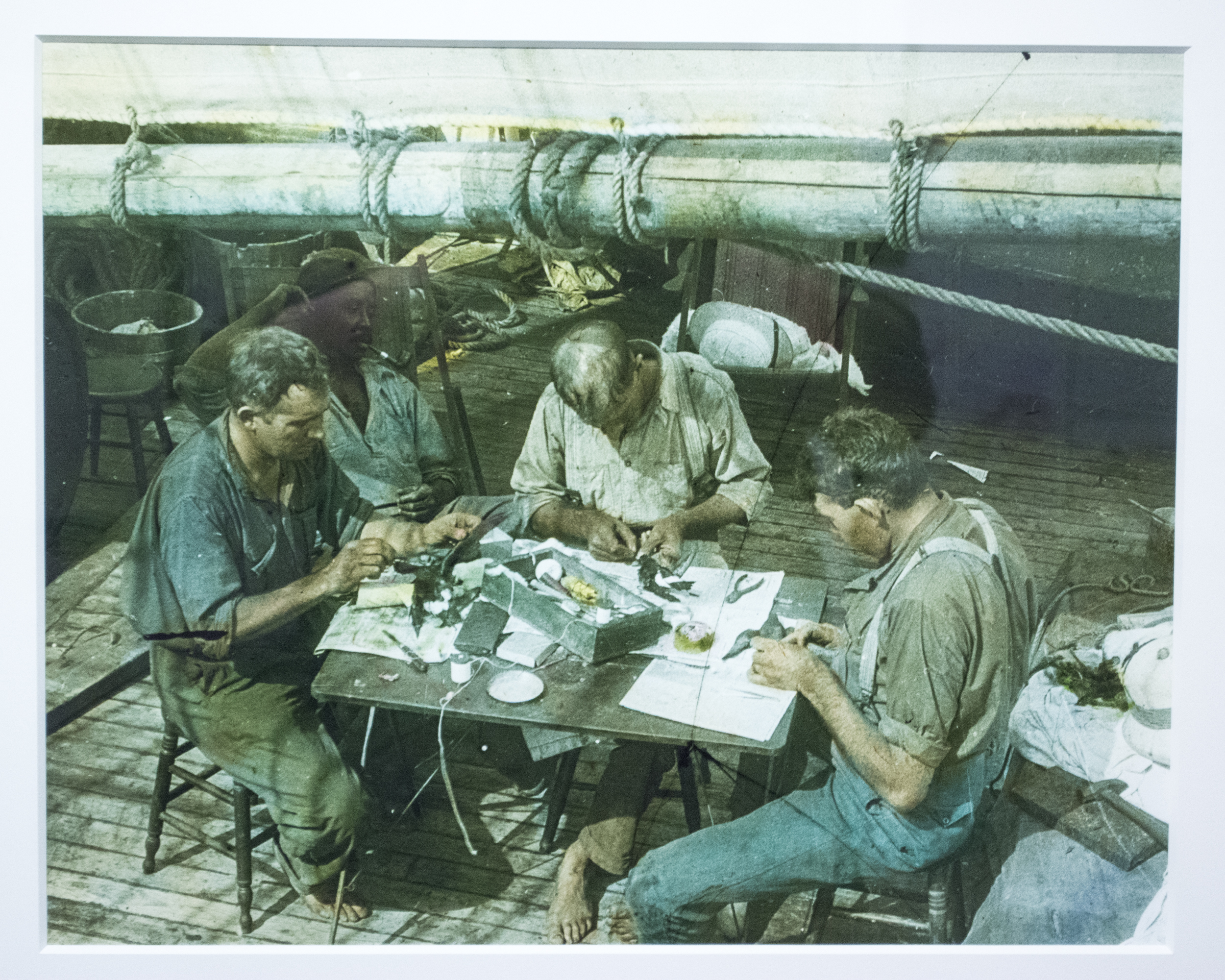 Preparing bird specimens about the Blossom in 1924 . Part of the exhibit "Sailing for Science: The Voyage of the Blossom", hosted by the Cleveland Museum of Natural History in Cleveland, Ohio, in the United States. Left to right: Taxidermist Robert Rockwell, cook William Hall, naturalist Allan Moses, and biologist Kenneth Cuyler. The three-masted sailing ship Blossom left Connecticut in the United States for Africa, the South Atlantic, and South America on a specimen collecting expedition in 1922. The voyage was sponsored by the Cleveland Museum of Natural History. The ship returned in 1926 with more than 12,000 specimens.